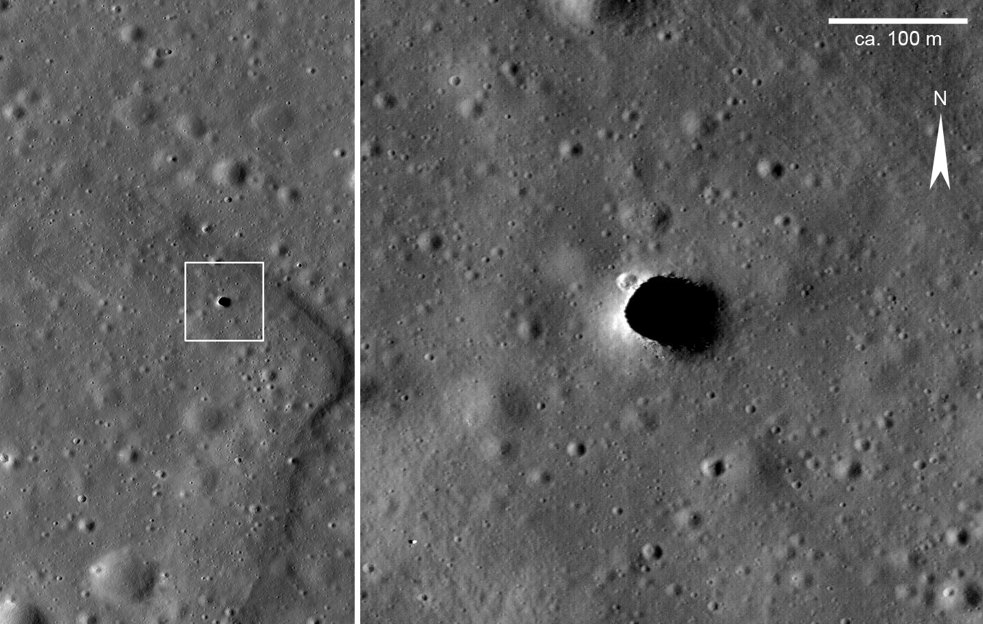 Photograph of a ‘hole’ in the Moon’s surface in the Marius Hills area, Oceanus Procellarum, taken by the Lunar Reconnaissance Orbiter probe (LRO). The right image renders a magnification of the area which is enclosed in the white box in the left image. In the left image the situation of the ‘hole’ within a shallow, sinuous rille structure (rima) is well recognizable. Because rilles are thought to represent fossil lava streams, the ‘hole’ is interpreted as a skylight of a lava tube (cf. Haruyama et al., 2009[1]). The Marius Hill hole is the first such feature ever spotted on Moon. The scale bar is according to the image being about 900 pixels wide with a pixel covering about 0.5×0.5 m of the Moon’s surface.